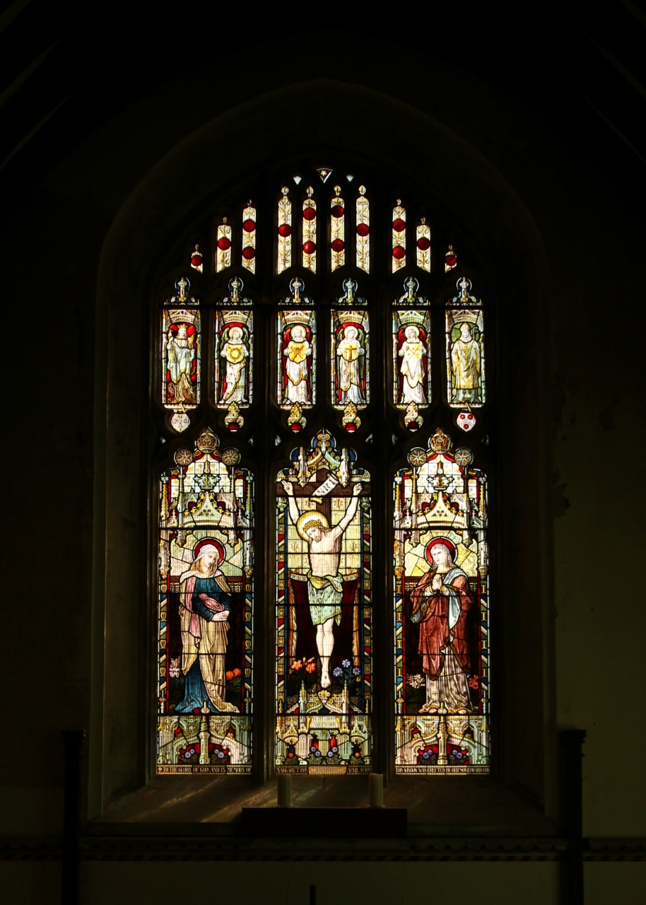 East window of the chancel of St Mary's parish church, Upper Heyford, Oxfordshire